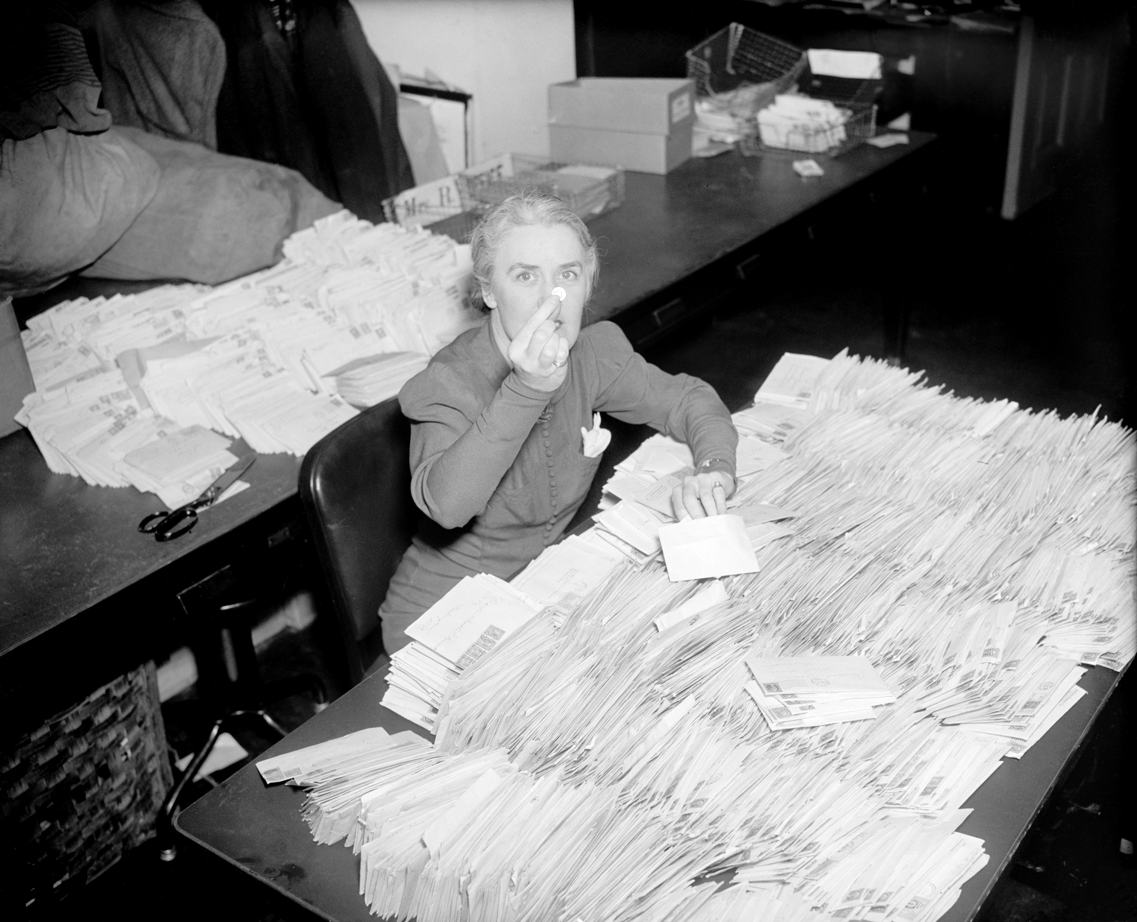 Photograph of Missy LeHand, secretary to President Franklin D. Roosevelt, with the morning mail arriving at the White House in response to an appeal to donate dimes to fight infantile paralysis as a way of celebrating the president's birthday — the first "March of Dimes" campaignTitle: Dimes for Infantile Paralysis foundation flow into White House for president. Washington, D.C., Jan. 28. Official mail was nearly forgotten today at the White House as letters containing ten-cent contributions to the National Foundation for Infantile Paralysis continued to arrive by the thousands. Miss Margaret Lehand, Personal Secretary to President Roosevelt, is shown opening some of the 30,000 to arrive in the first mail this morning, 1/28/38